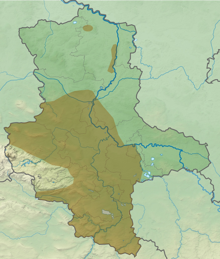 Distribution area of the Linear pottery culture in Saxony-Anhalt